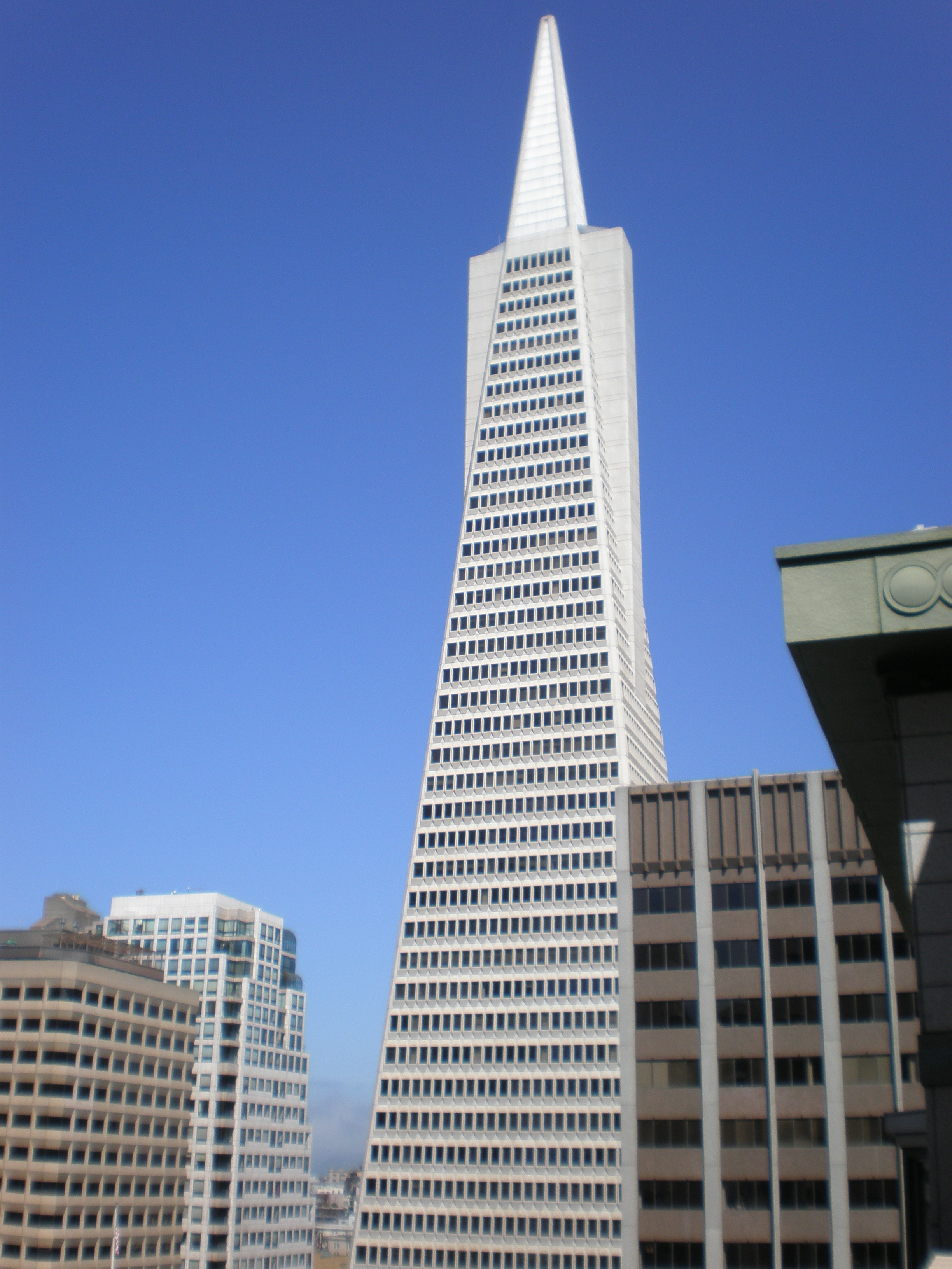 The Transamerica Pyramid as seen from the rooftop garden of 343 Sansome Street in San Francisco.